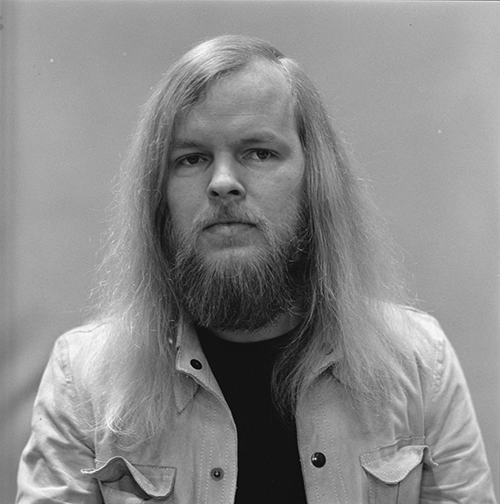 Gerard Koerts (Earth & Fire) in AVRO's TopPop (Dutch television show) in 1973